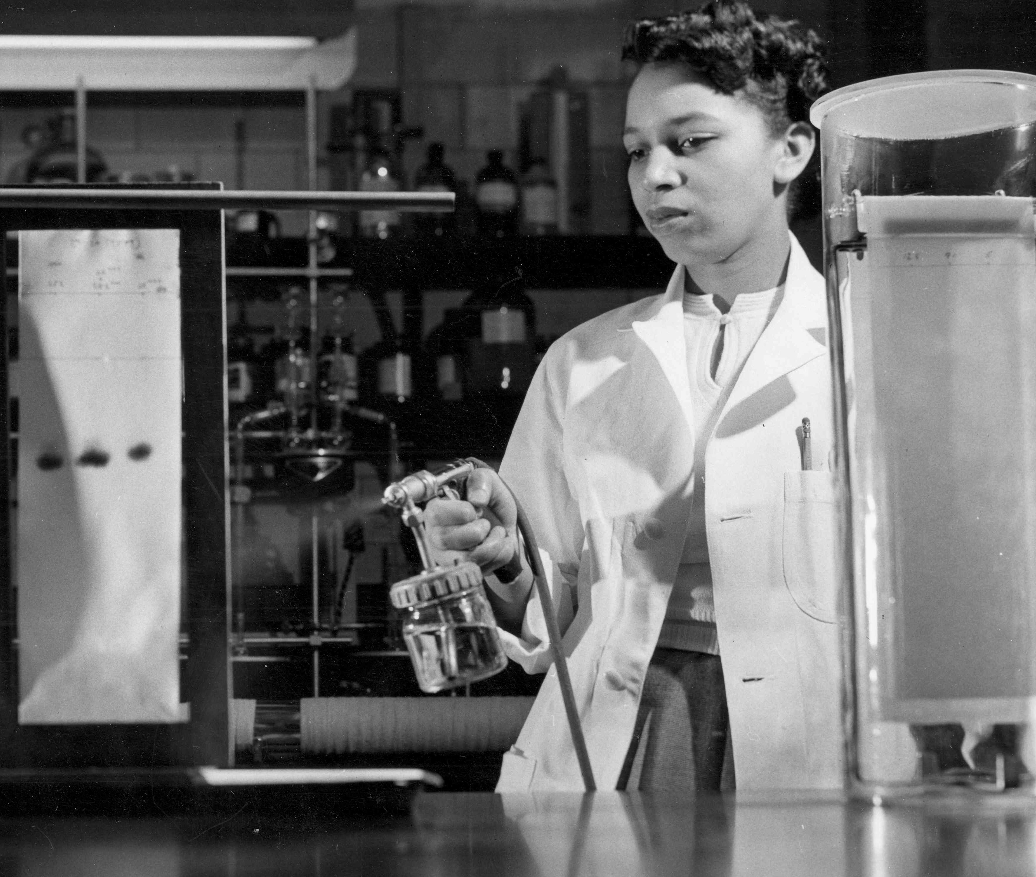 Amy Levant Hayden spraying chromatogram with reagent